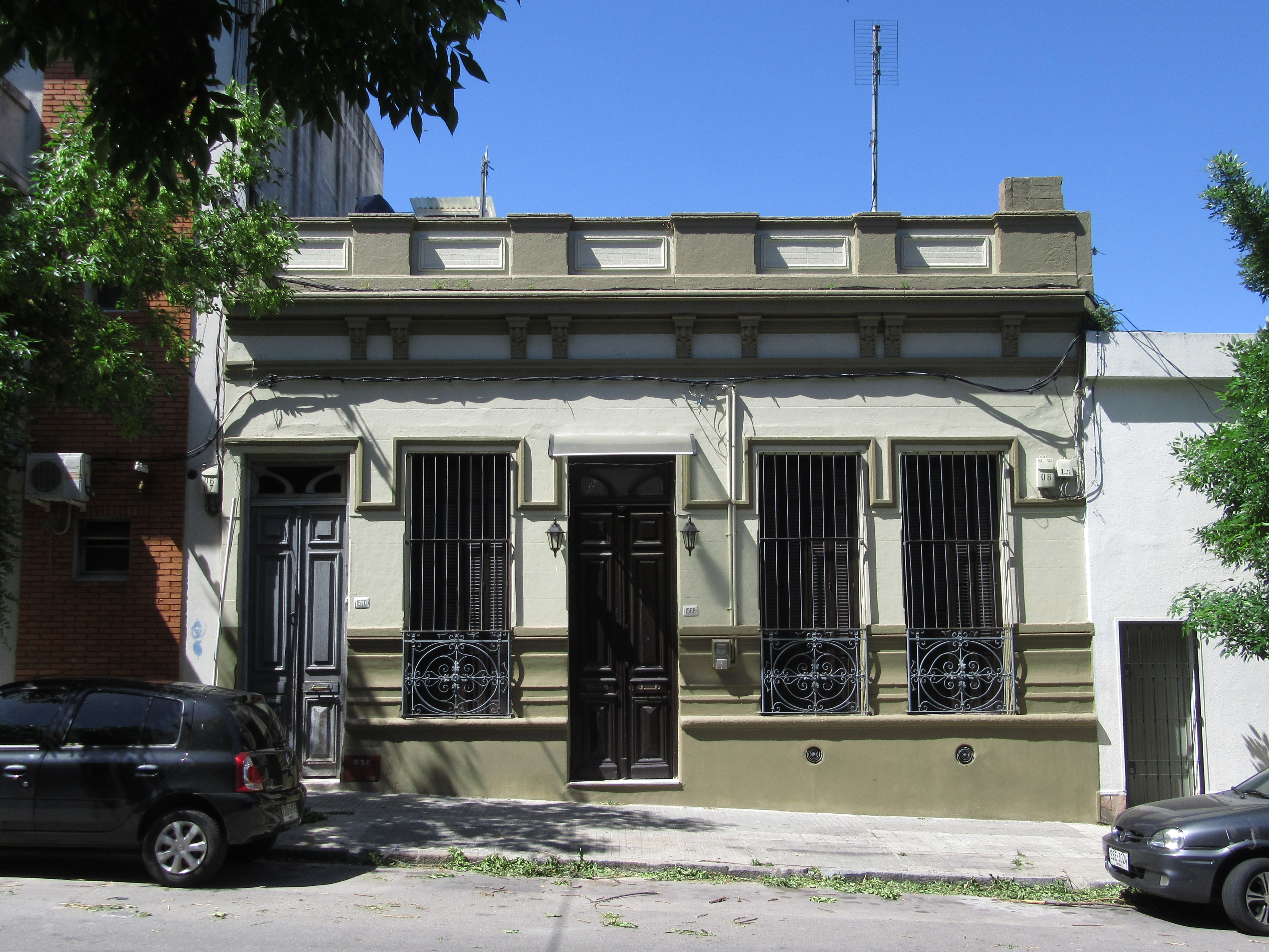 Montevideo